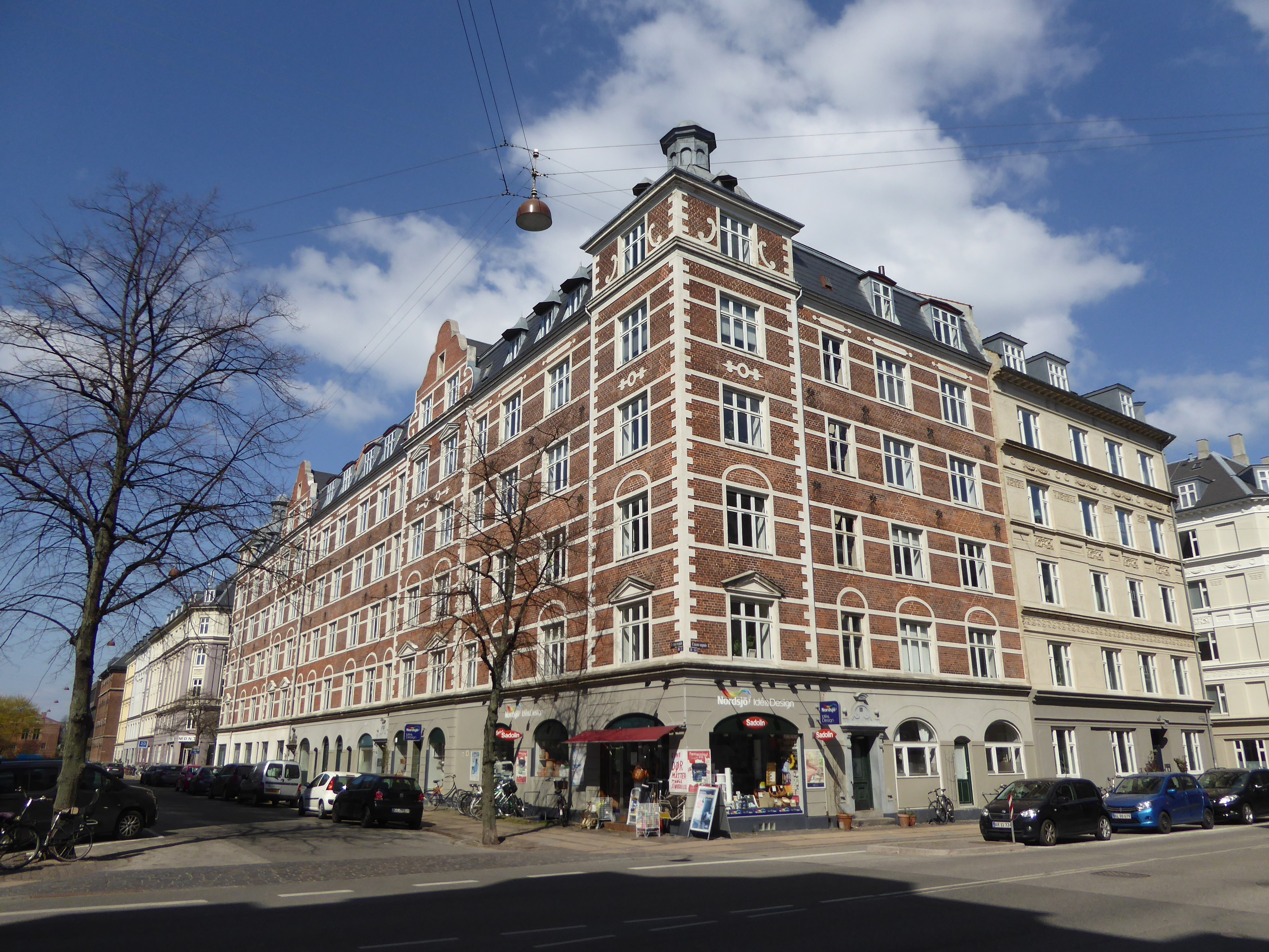 The partment building Rosenborghus at the corner of Livjægergade and Classensgade in Østerbro in Copenhagen.